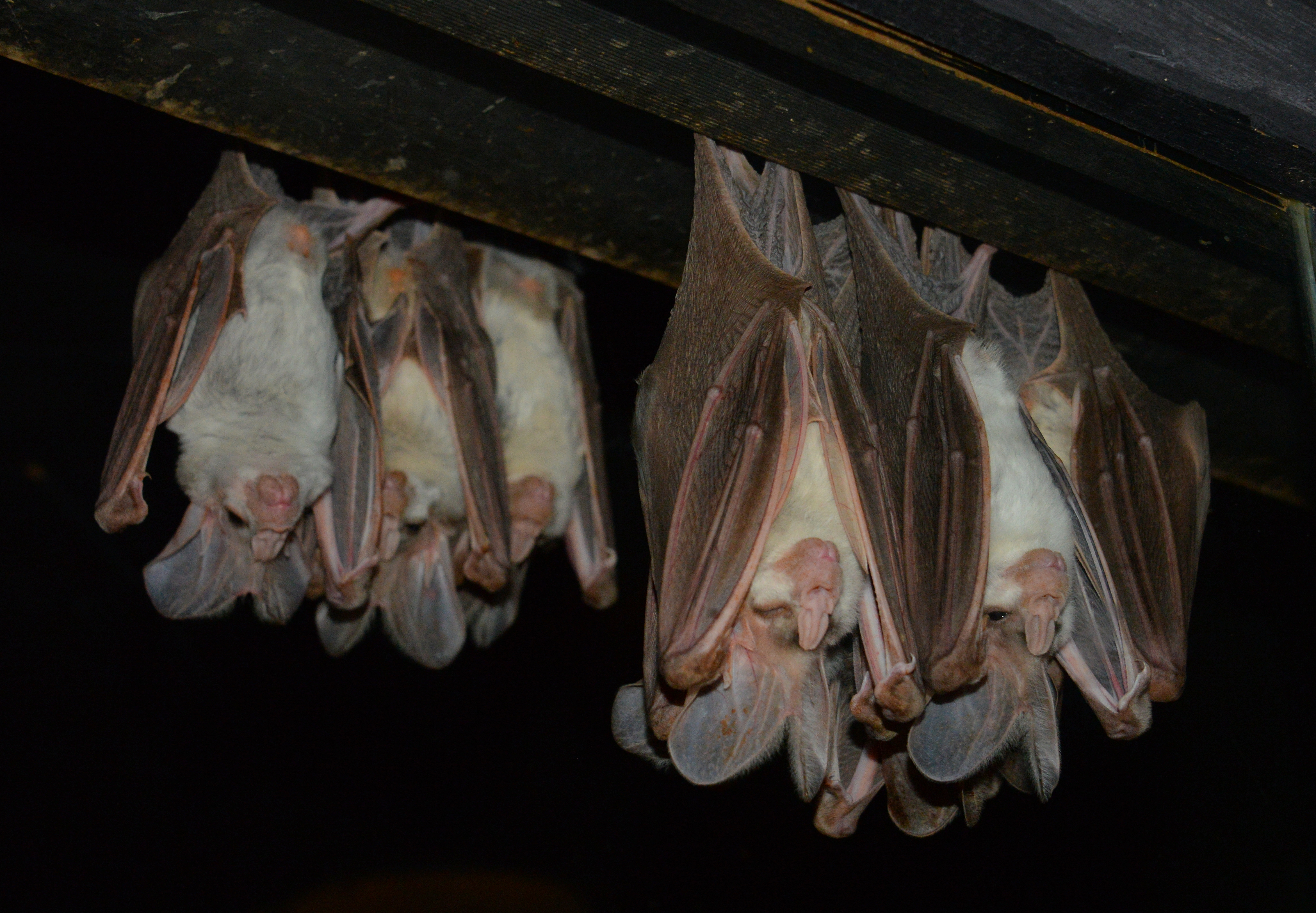 Ghost bats, Featherdale Wildlife Park, Sydney